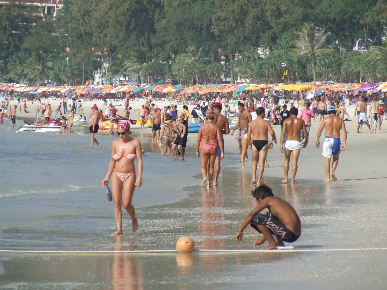 Patong beach, Phuket Island, Thailand Photo taken 2006 by User:Neitram